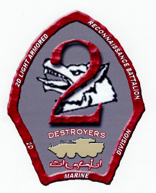 The 2DLAR Wolfpack Destroyers with Arabic logo, also only used for a short period of time.